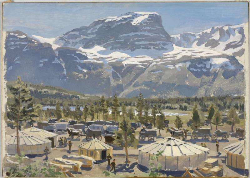 A British Camp near Skibotn image: a view looking down on a British Army camp, showing soldiers walking around in between large circular tents surrounded by fir trees. A road runs across the centre of the camp. On the road is a line of horse-drawn carts. Snow-capped mountains rise up in the background.